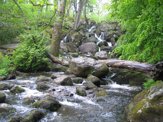 Dartmoor: Becky Falls From a strictly physical geographical point of view this is the Becka Falls waterfall on the Becka Brook, which is a tributary of the River Bovey. The water cascades here over a boulder-strewn bed with a fall of about 70 feet or about 20 metres. However the land in which they occur is privately owned, and the owners have unsurprisingly turned the site into a tourist attraction in which the falls are the centrepiece of a woodland park containing a variety of different features such as a children's zoo, pony paddocks, and the inevitable gift shop. In the course of this commercialization the name of the falls has metamorphosed from Becka, as shown on the OS 1940s map, into Becky, as shown on the current OS map. The falls were first made accessible to the public in 1903, and the park's website is here Adult admittance in May 2007 was £5.75 per person.